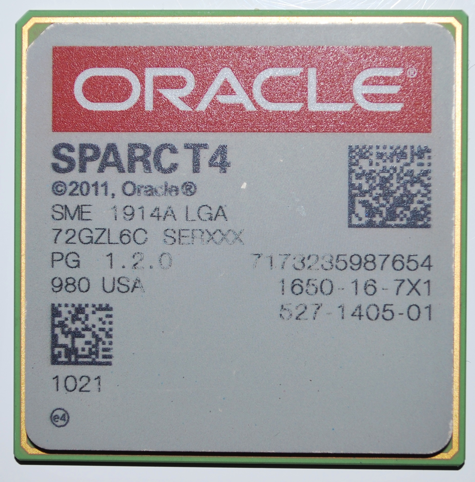 SPARC T4 RISC Processor